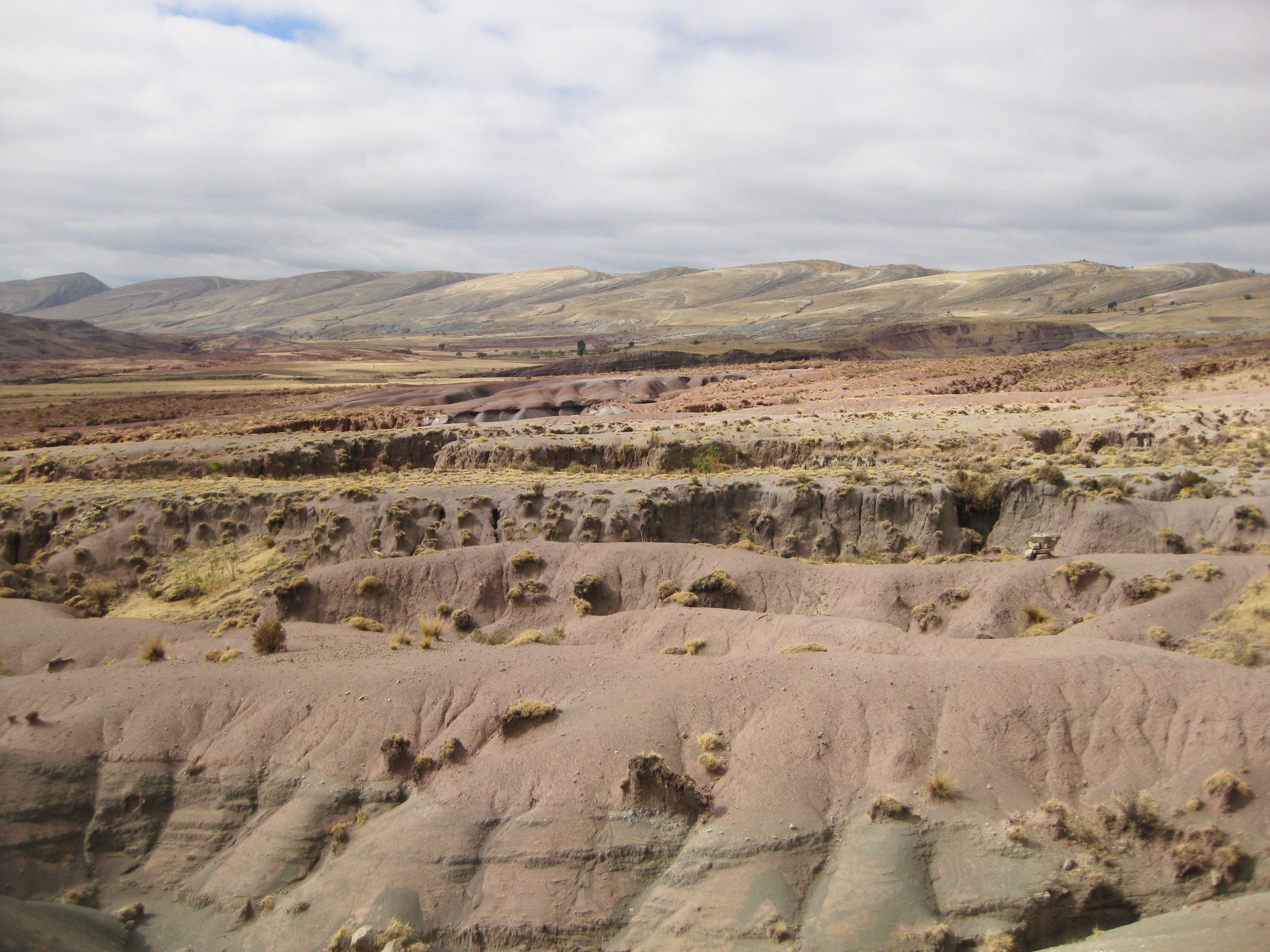 Cordillera de los Frailes - Maragua crater